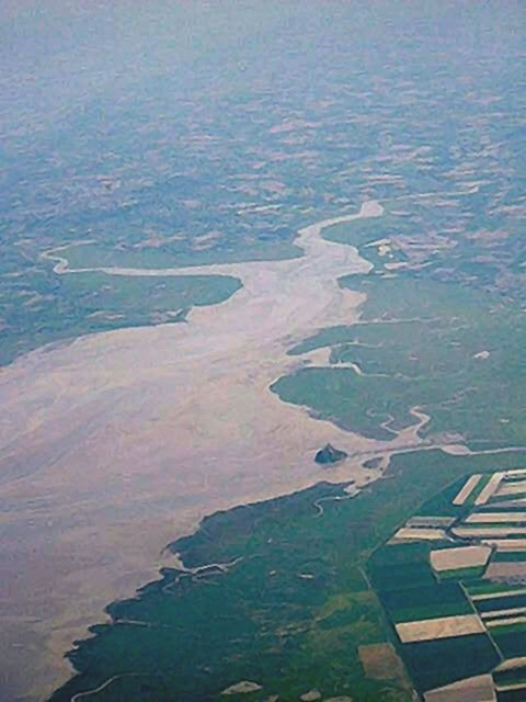 Aerial view of Avranches and Mont-Saint-Michel in NormandyFamiliar ground